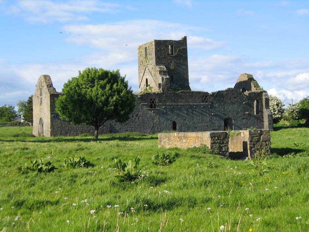 Callan Augustinian Friary, Callan, Co Kilkenny, Photo Taken by Barry Somers, May 12th 2007